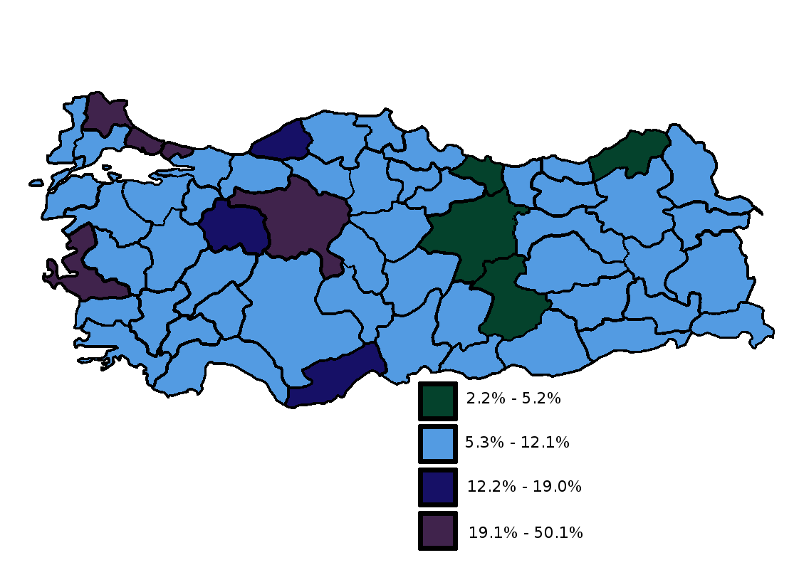 Literacy rates in Turkey by provinces in 1924. Based on File:Literacy-1924-Turkey.png